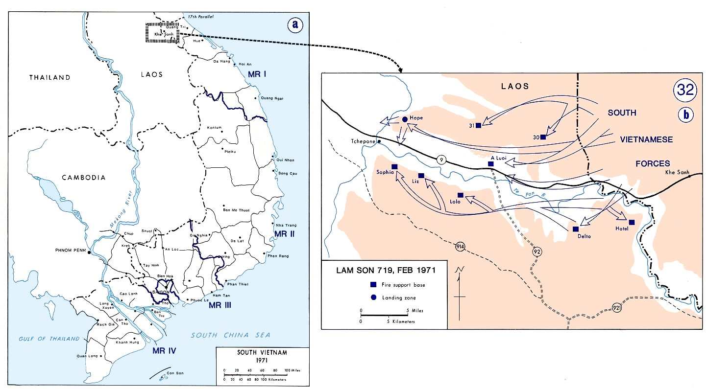 32. South Vietnam, 1971 - LAM SON 719